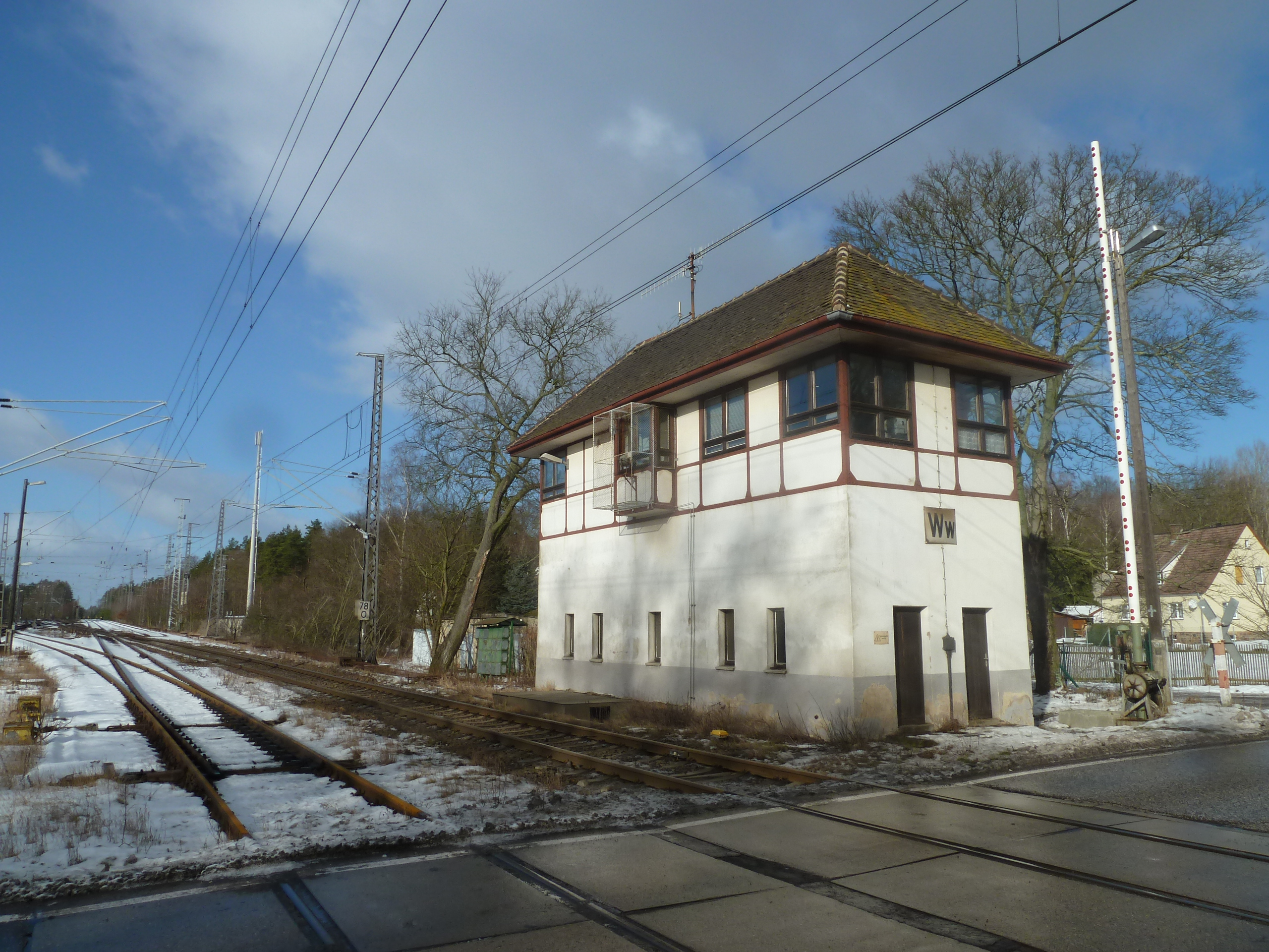 Wiesenburg (Mark) Railway station, signal tower "Ww" (cultural heritage)